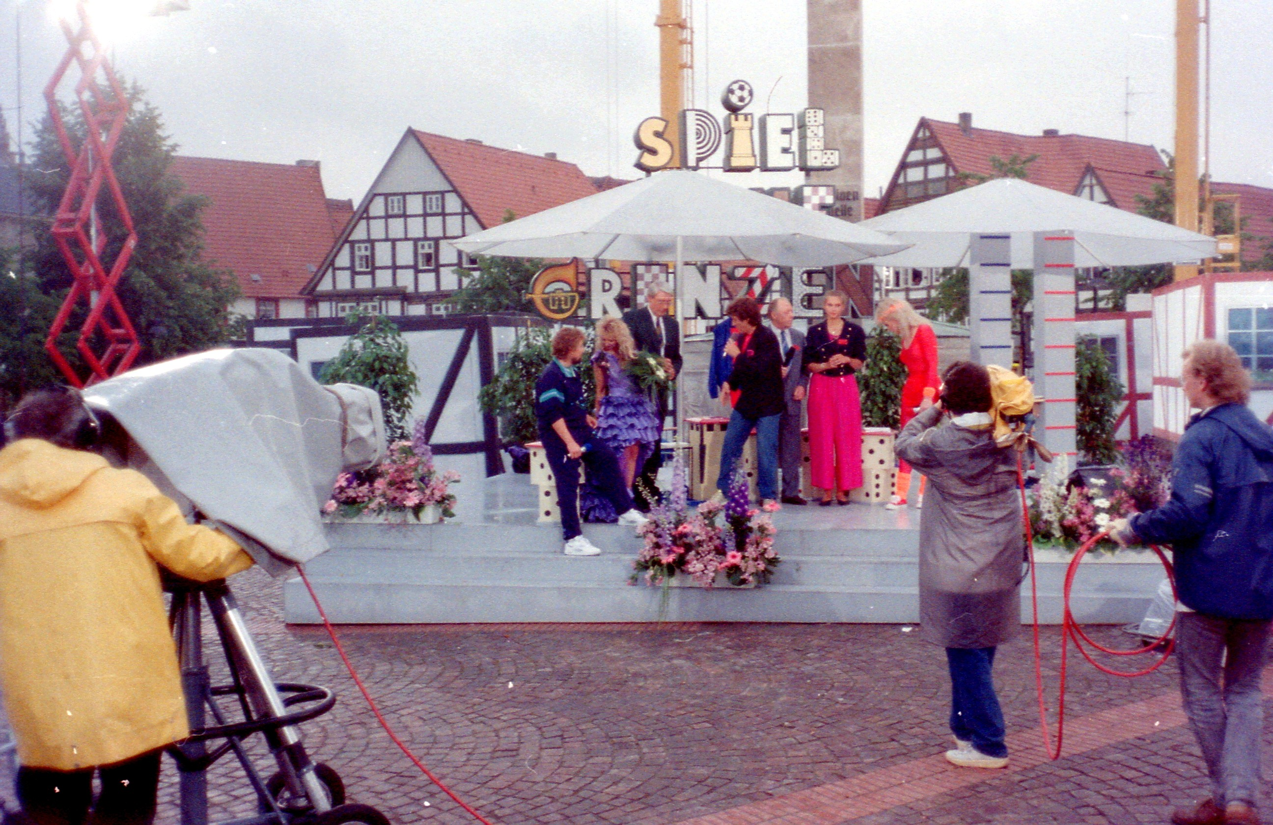 Germany - North Rhine-Westphalia - Lippe - Bad Salzuflen: TV-show "Spiel ohne Grenzen" (Jeux Sans Frontières)